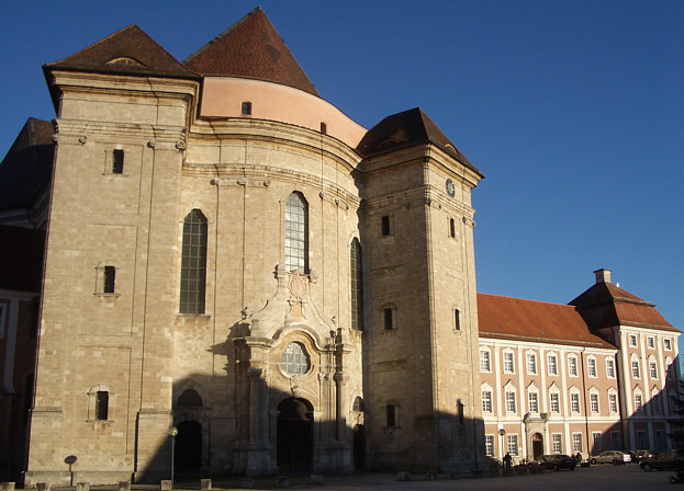 Façade of the former abbey church of Wiblingen, Ulm, Germany